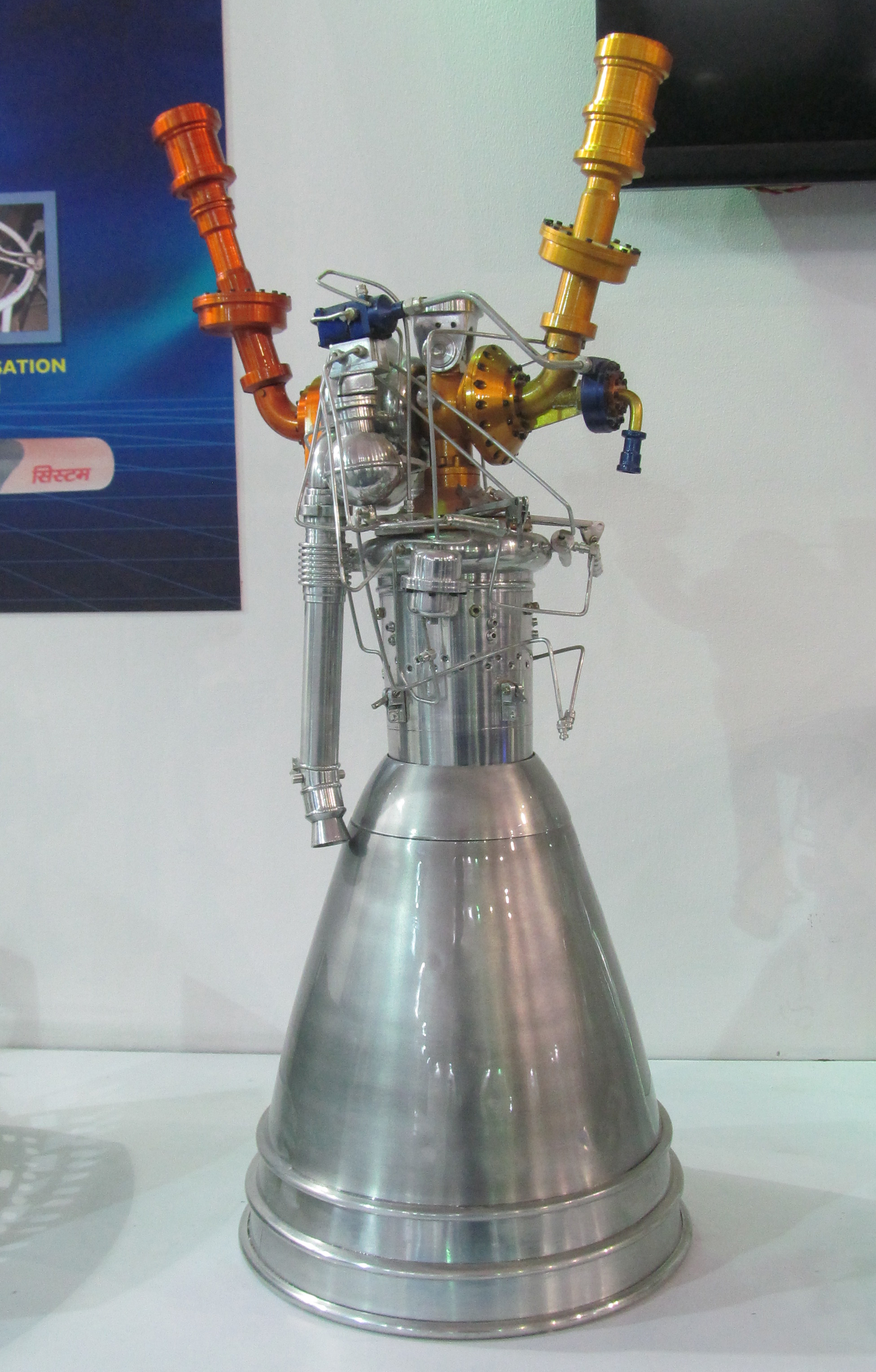 A scaled down model of Indian Space Research Organisation's Vikas engine.